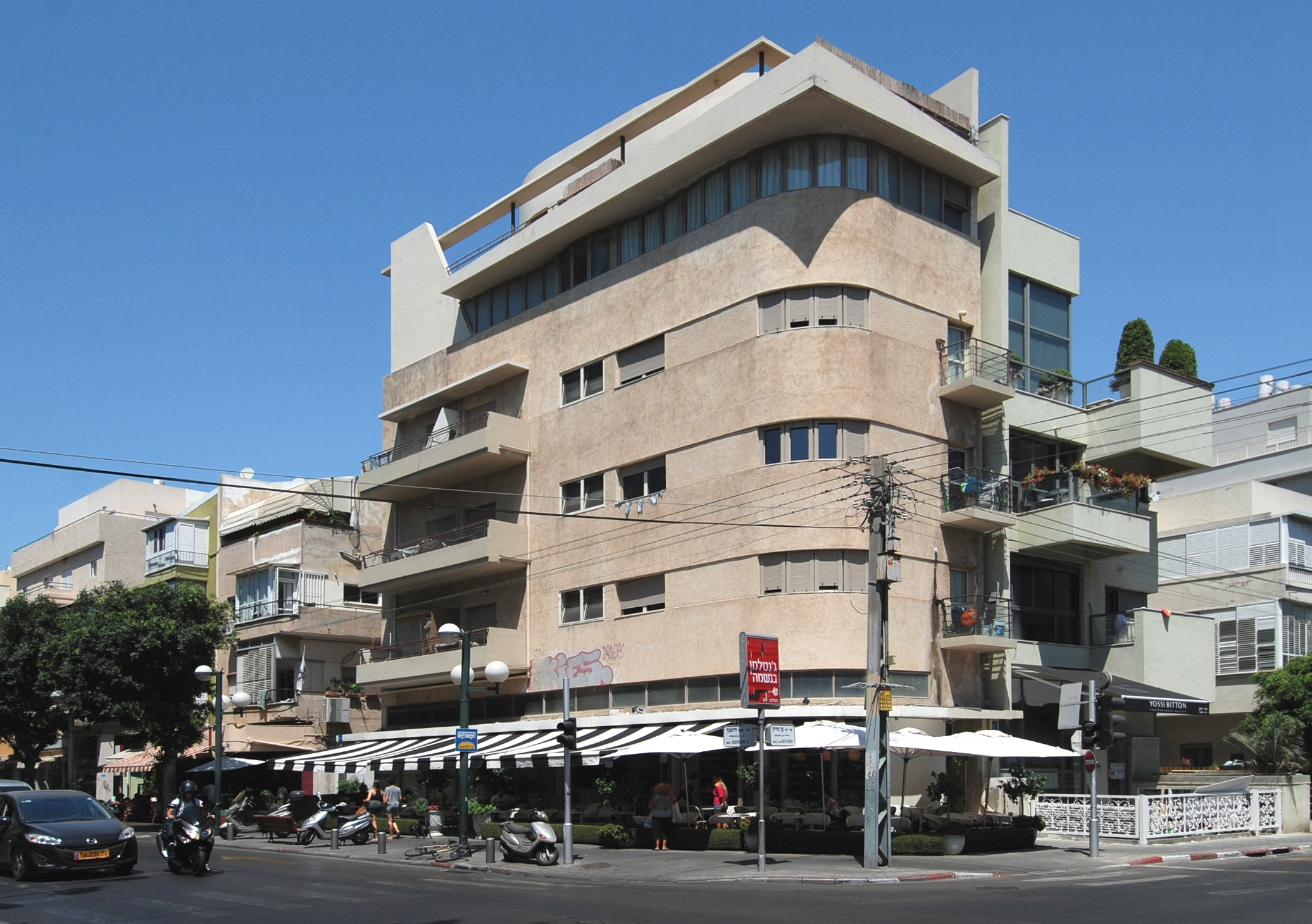 Apartment building at 166 Dizengoff Street/45 Ben Gurion Avenue, Tel Aviv. Architects: A. Mitelman (1936) and Pinhas Doron (1995)